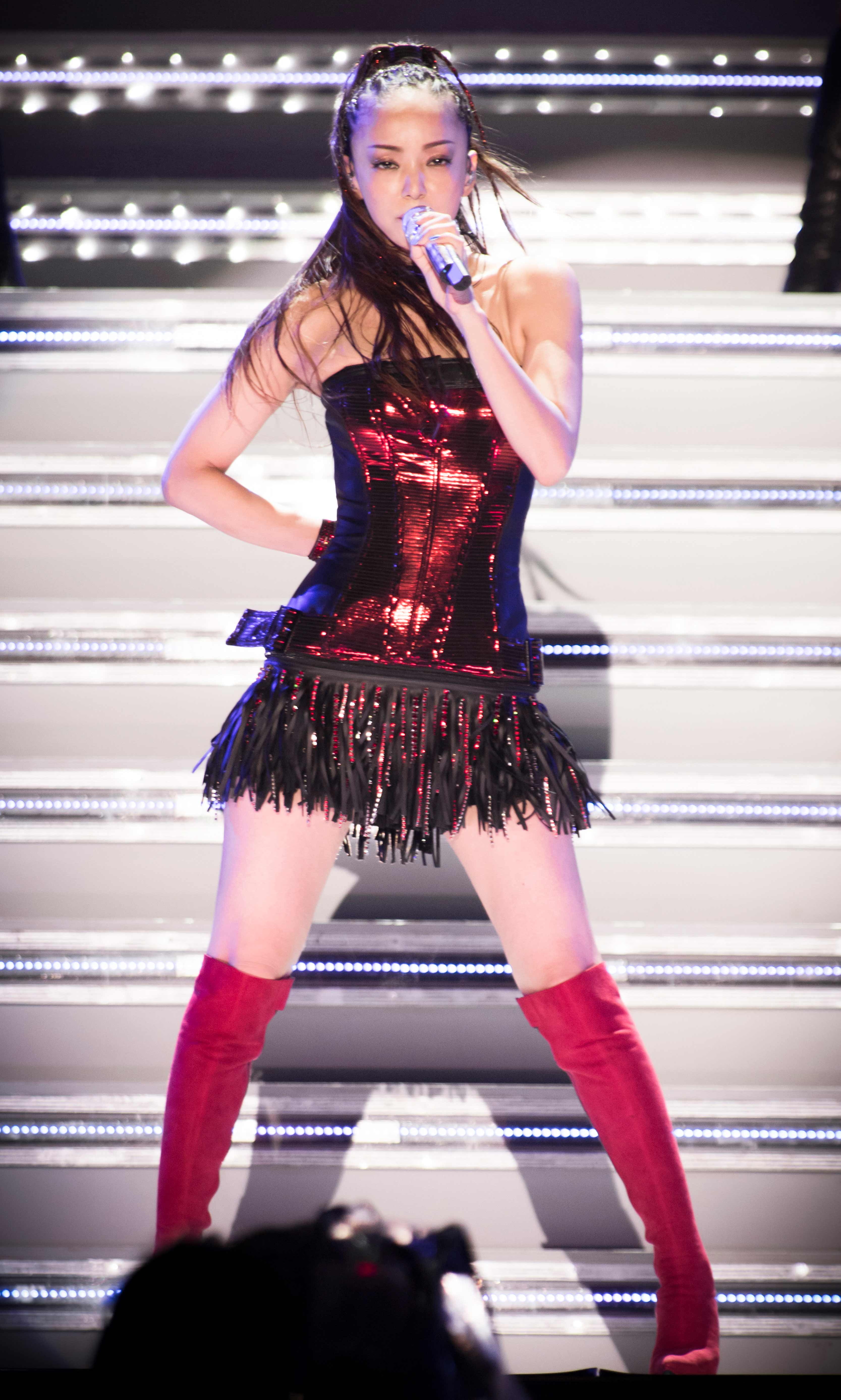 安室奈美恵 「namie amuro 25th ANNIVERSARY LIVE in OKINAWA」ライブステージで。 CC BY 2.0 Avex Group Holdings, Avex Trax.